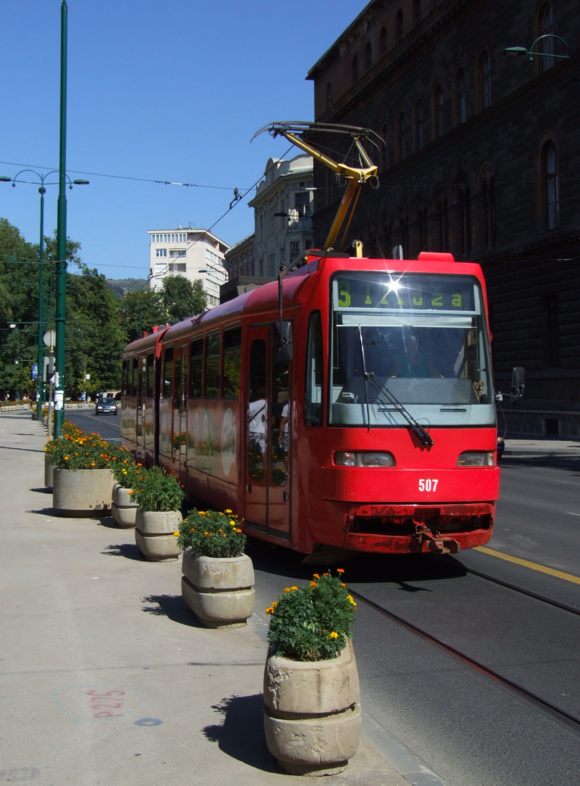 Tram Satra II in Sarajevo, BiH